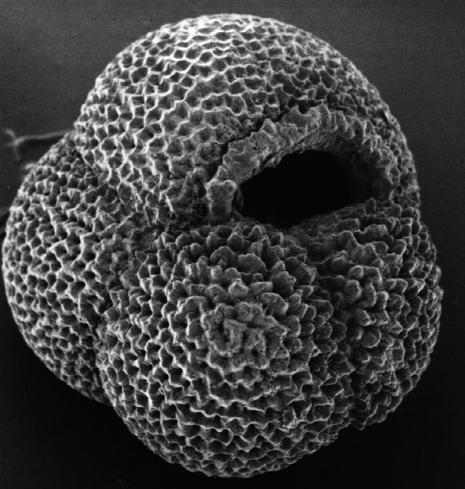 Palaeoclimate archives: REM foto of a planktic foraminifera